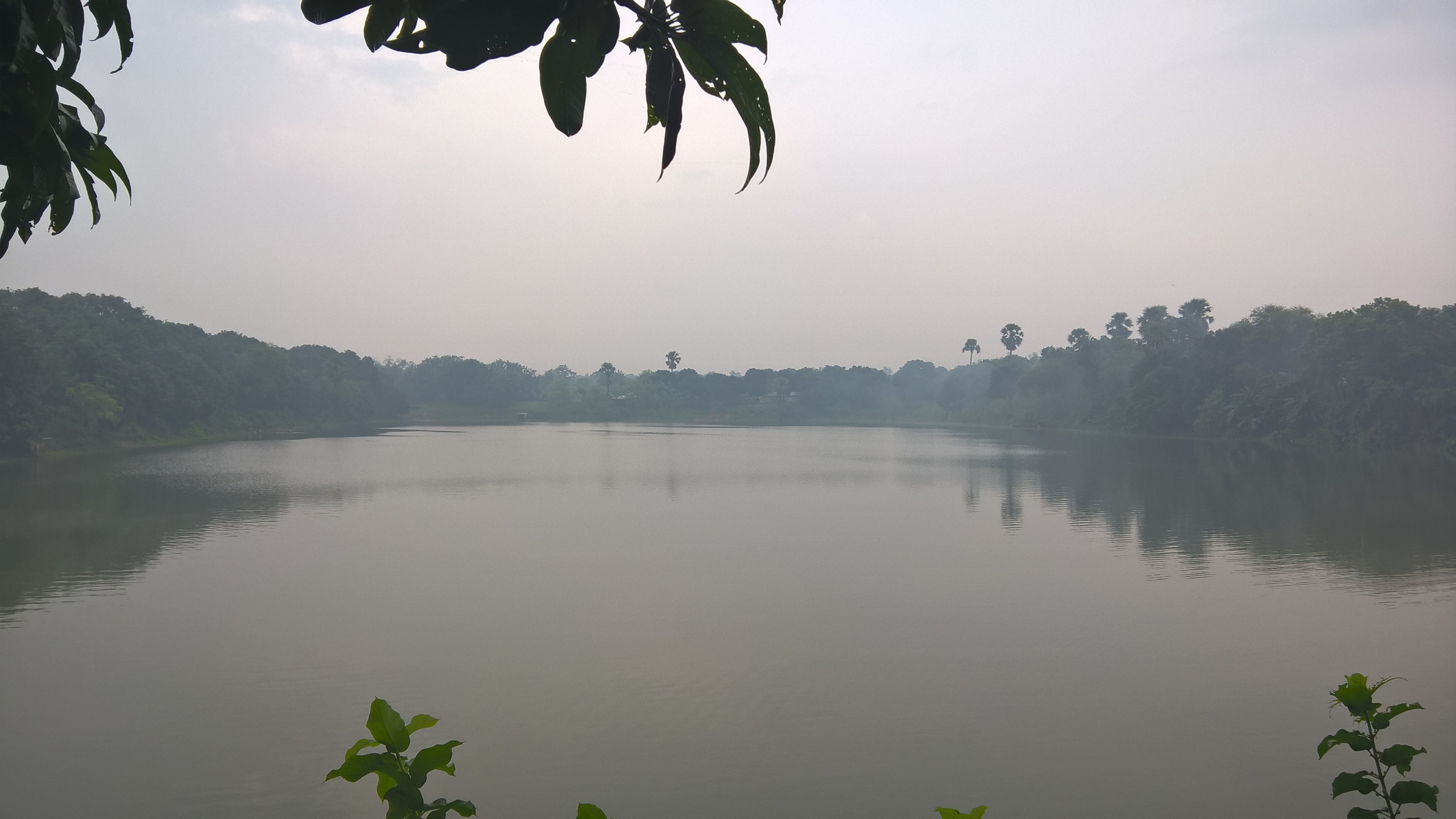 The Khania Dighi Mosque, also known as Chamchika Mosque & Rajbibi Mosque in Chapai Nawabganj in Rajshahi, Bangladesh. Khania Dighi Mosque is located on bank of Khania Dighi which is about a quarter mile away from the high mud wall of the ancient city of Gaur on the north and the Balia Dighi on the west in Nawabganj district. It’s a 14th century Mosque, a valuable archeological heritage of Bangladesh.